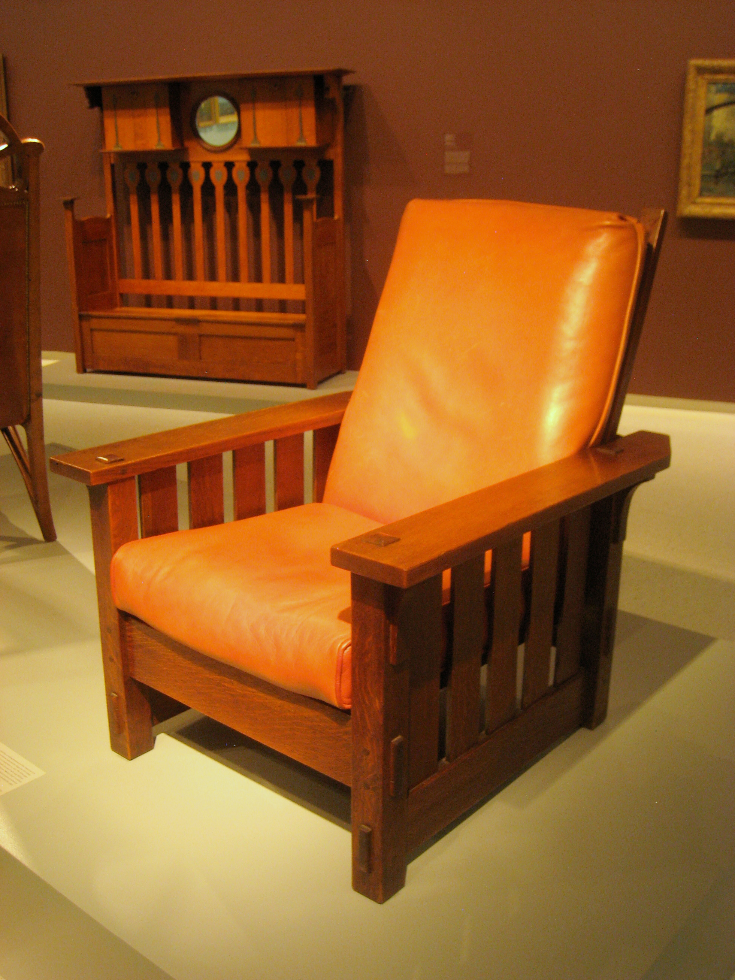 Adjustable-Back Chair No. 2342, Gustav Stickley, 1902, exhibited in the Carnegie Museum of Art, Pittsburgh, Pennsylvania, USA.